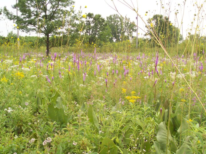 A mesic prairie remnant near Chicago Illinois containing an assortment of native plants commonly found in the tallgrass prairies of the Midwestern united states